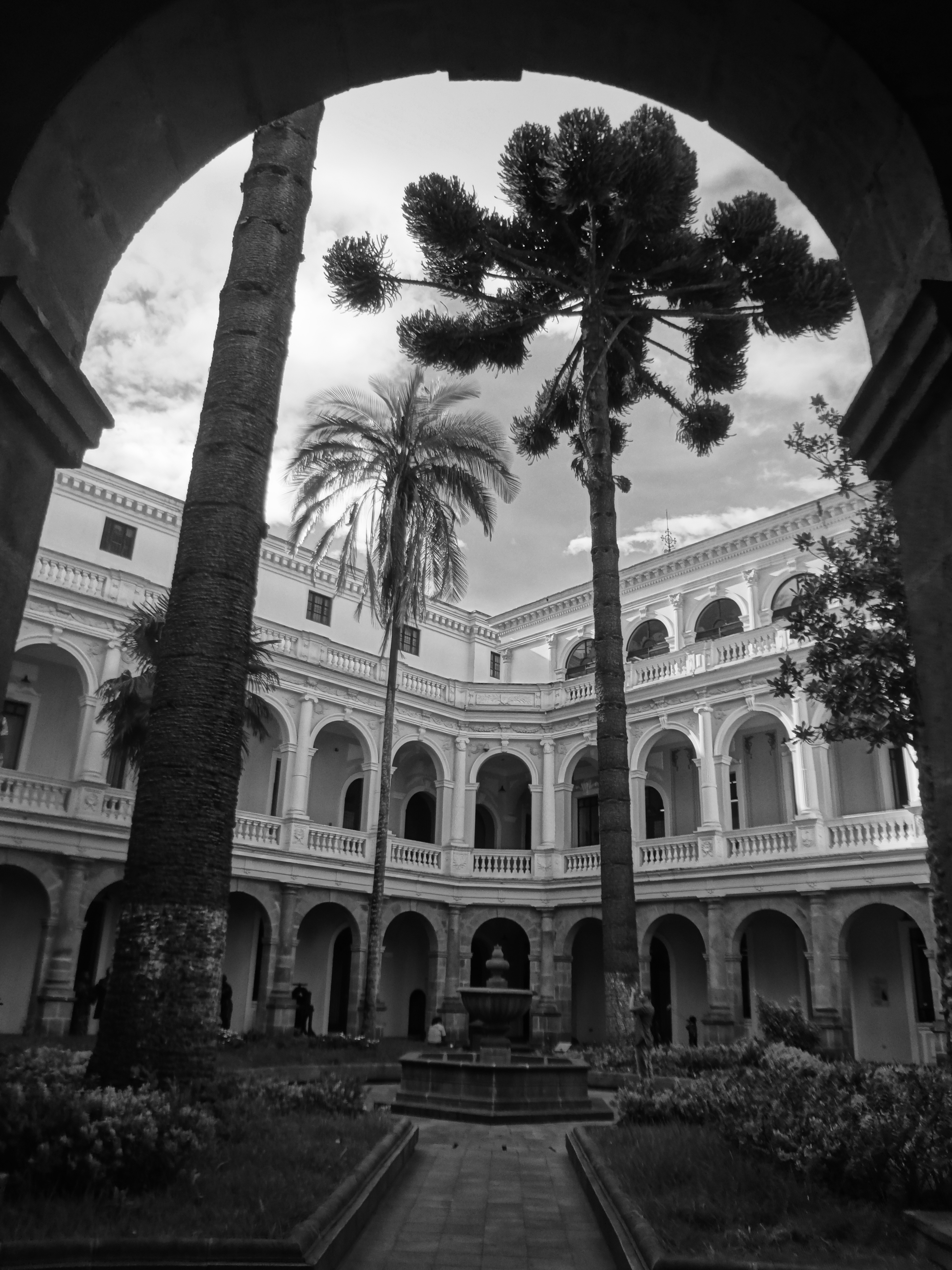 Interior photograph inside the Centro Cultural Metropolitano in the Historic Center of Quito, - - - - - - - ((( Historic Center of Quito - World Heritage Site by UNESCO